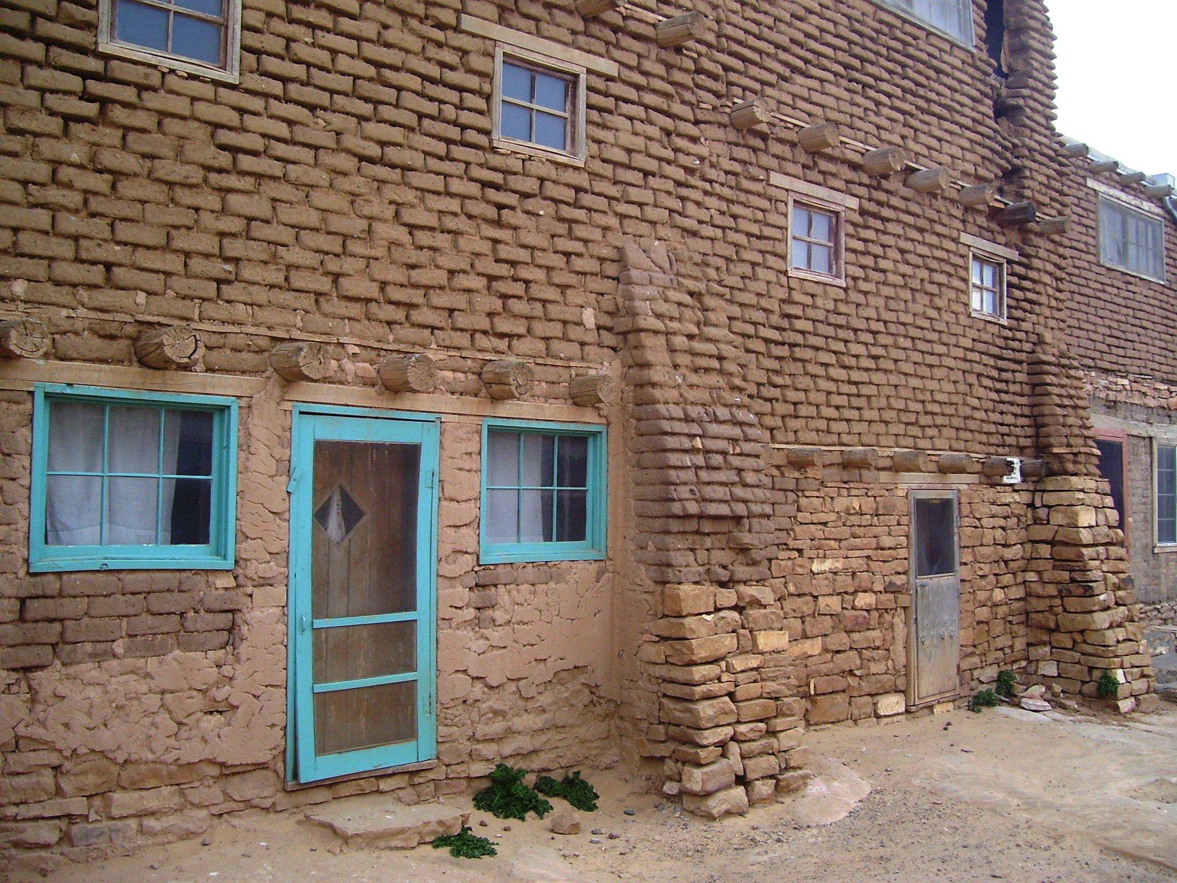 A buttressed building in the Sky City of Acoma Pueblo.